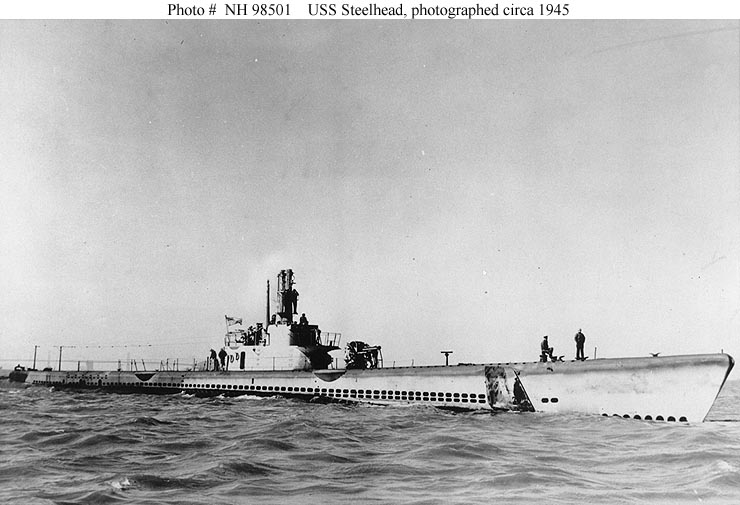 USS_Steelhead; Steelhead (SS-280) photographed circa 1945, after she had been refitted with a 5"/25 deck gun. This image has been retouched by wartime censors to remove radar antennas atop Steelhead's periscope sheers. Official U.S. Navy Photograph, from the collections of the Naval Historical Center. USNHC # NH 98501.